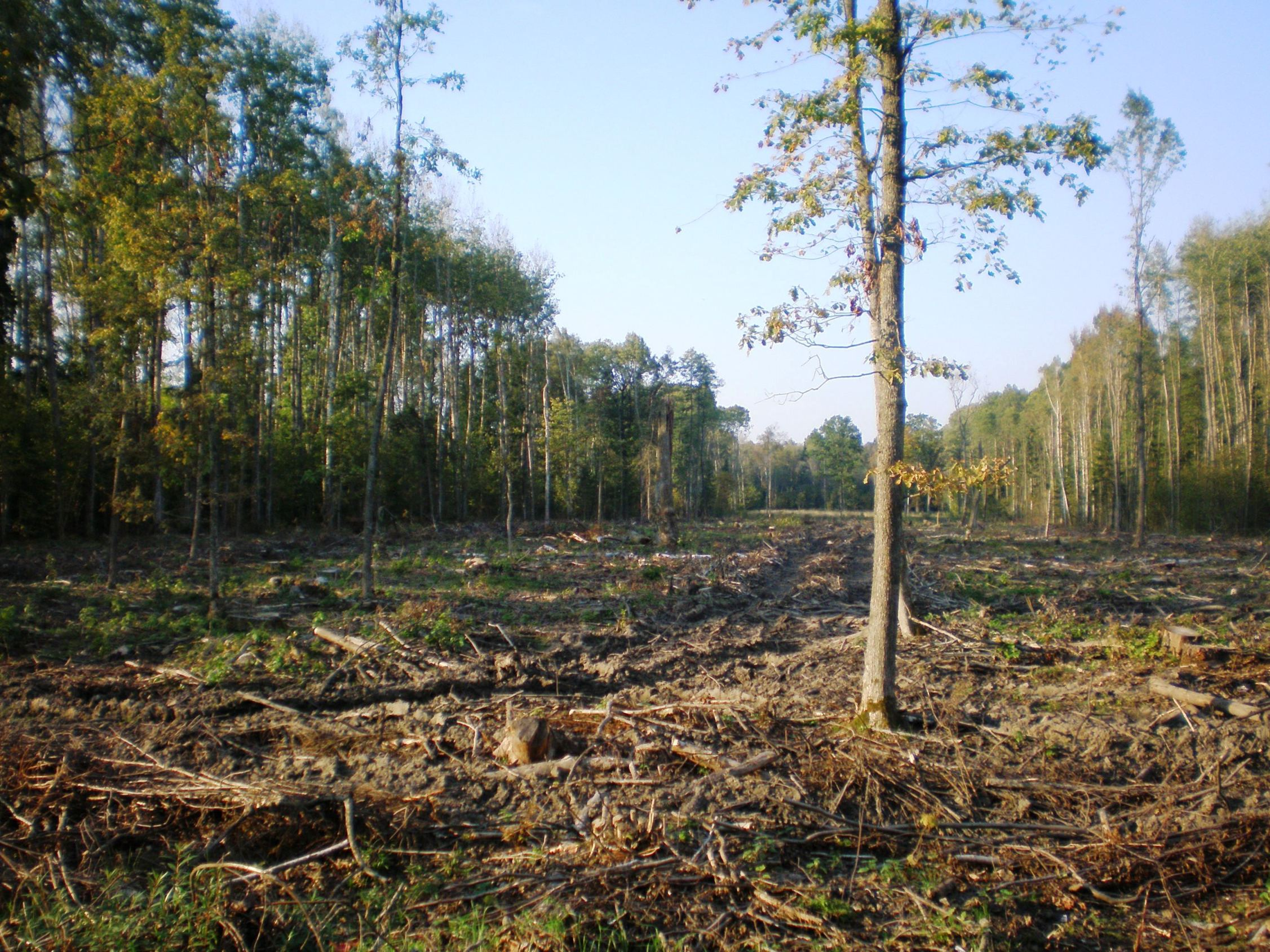 Deforestation by "Kėdainių miškų urėdija", Kėdainiai district